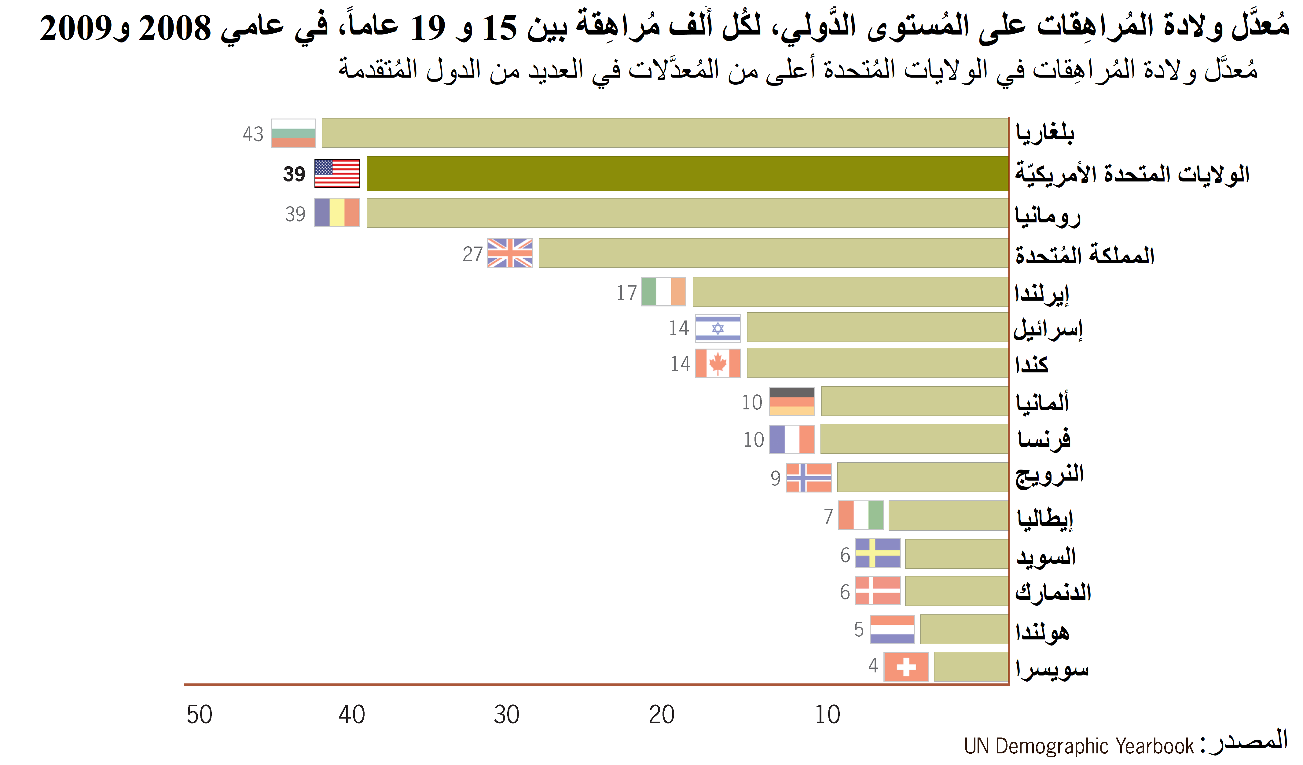 Teen birth rates internationally, per 1000 girls aged 15-19 2008